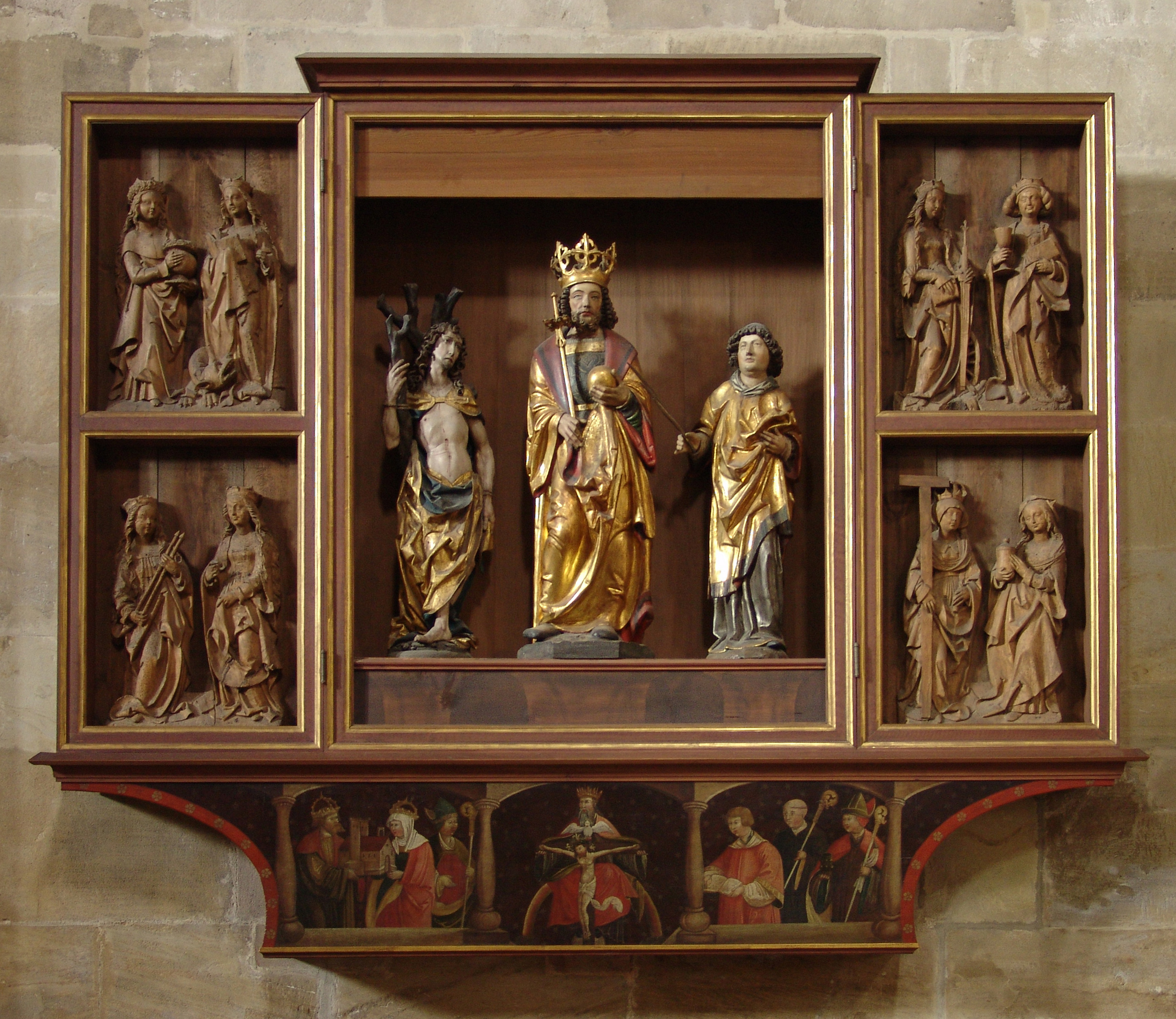 the so called Riemenschneider altar, left: St. Sebsatian (workshop of Riemenschneider), middle: Emperor Heinrich II., right: St. Stephanus